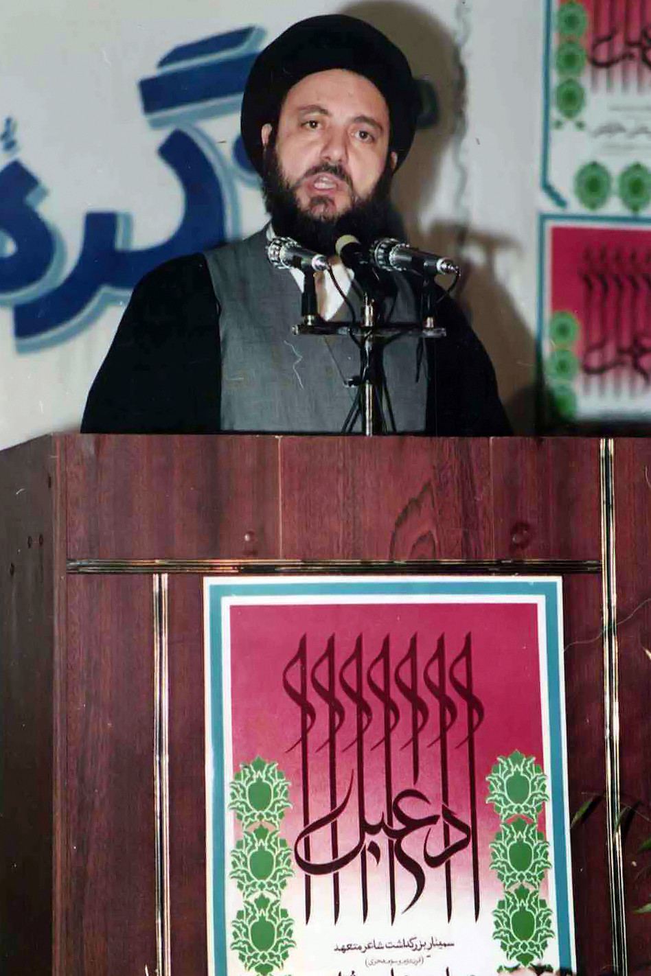 Mohammad Baqir al-Hakim speech, Dabal al-Khuzai Commemorative Seminar